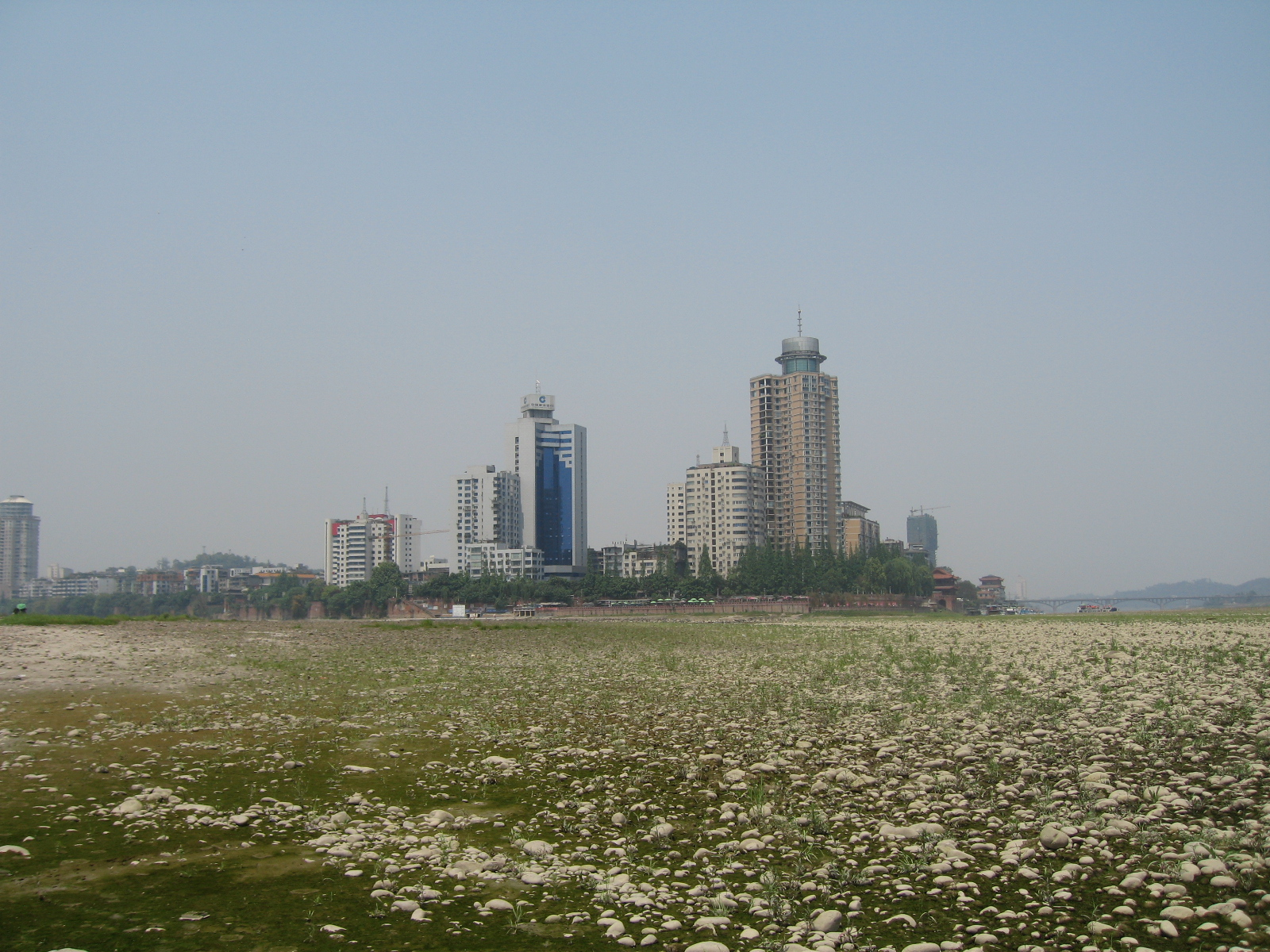 Leshan skyline from the Dadu River.